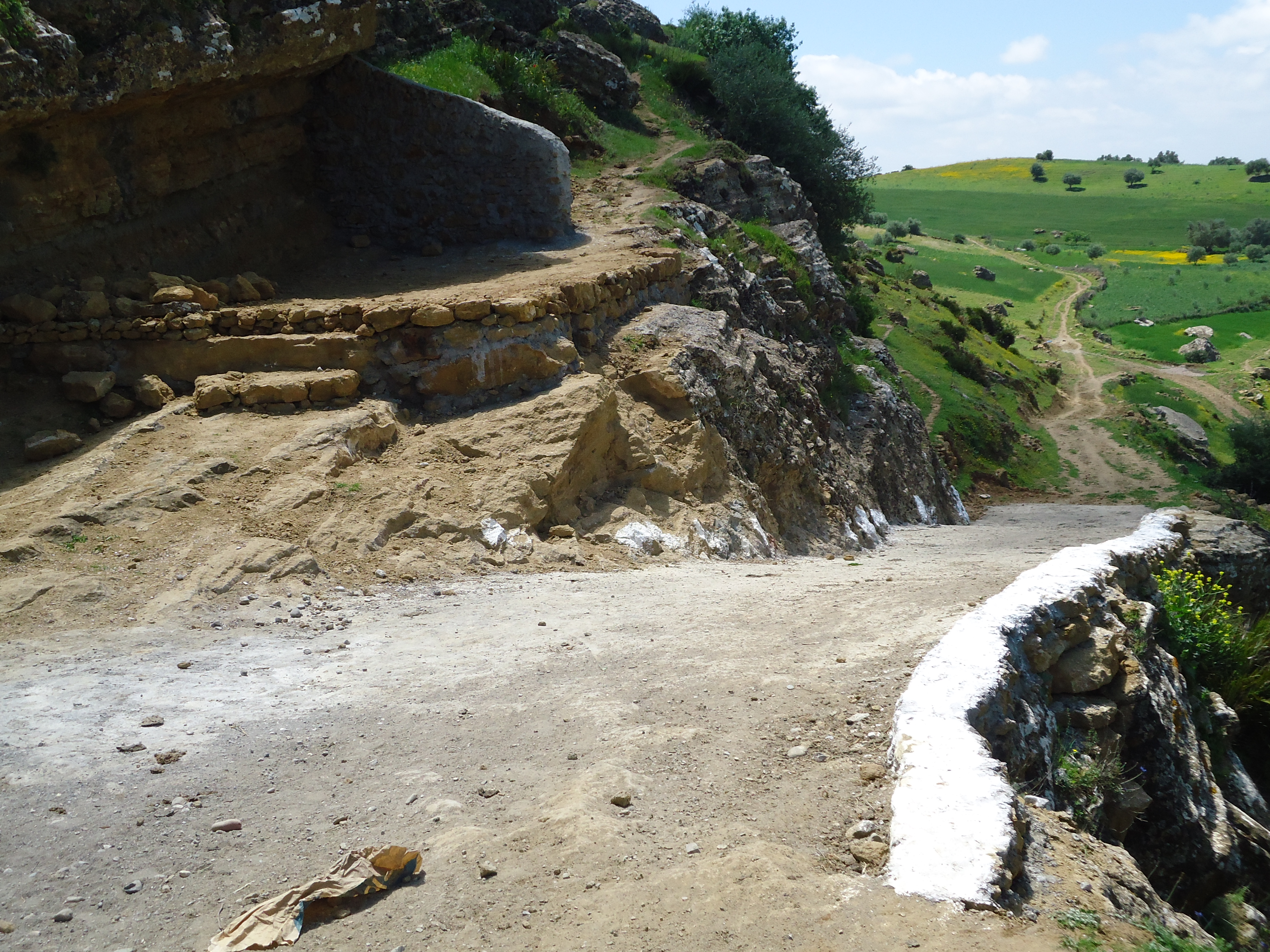 طريق تاورضة التي تمر على باب السوق